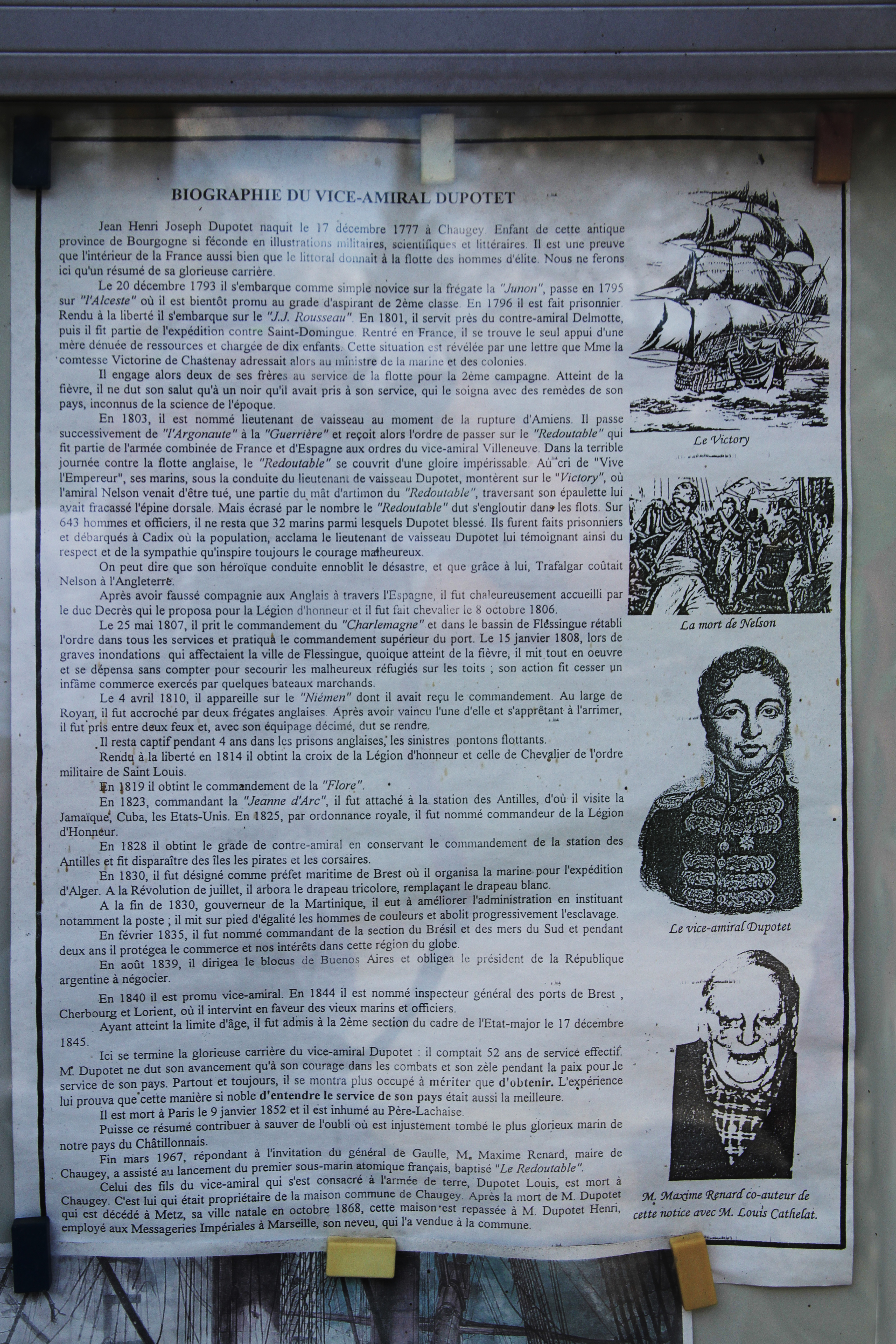 Biography panel of flag officer Dupotet who engaged Nelson's ship in the battle of Trafalgar, on his native house In Chaugey